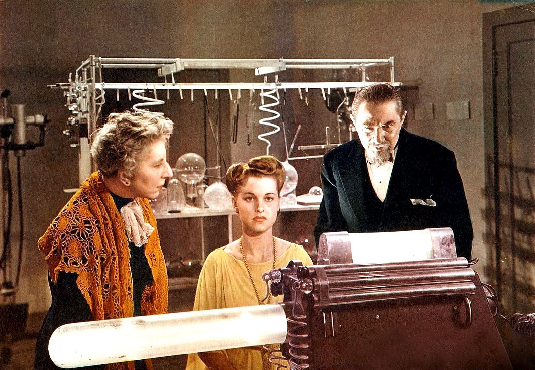 Colored lobby card for the American horror film Voodoo Man (1944) with Mici Goty, Ellen Hall, and Bela Lugosi. The item has no copyright markings on it as can be seen in the links above. At lower right is "Country of origin USA."